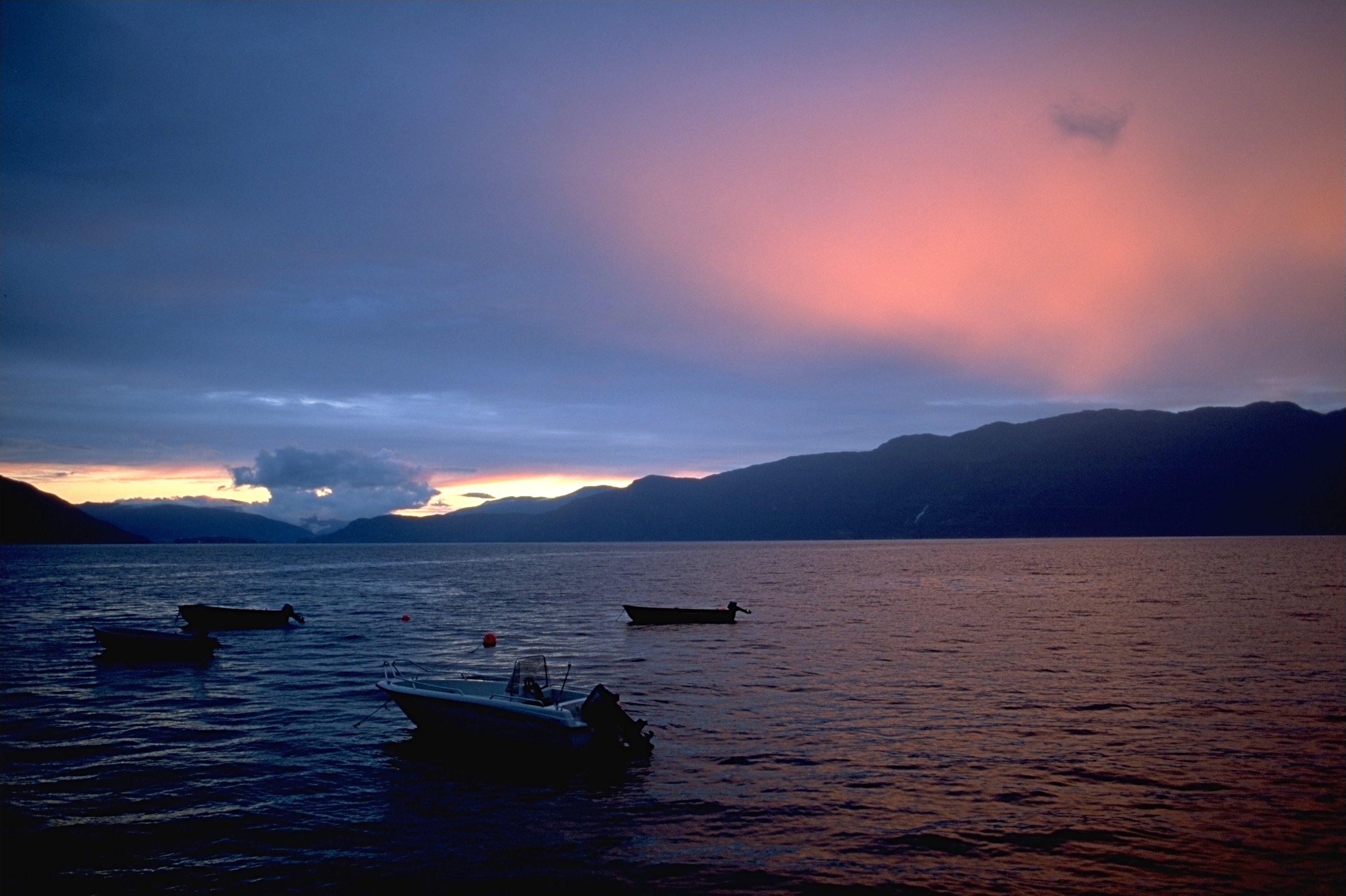 Sunset at Hardangerfjord Photo was taken using the following technique: Film: Fuji Velvia Lens: 2.8/28 Filter: none Body: Minolta Dynax 7 Support: Manfrotto 190B Image with Information in English Bild mit Informationen auf Deutsch